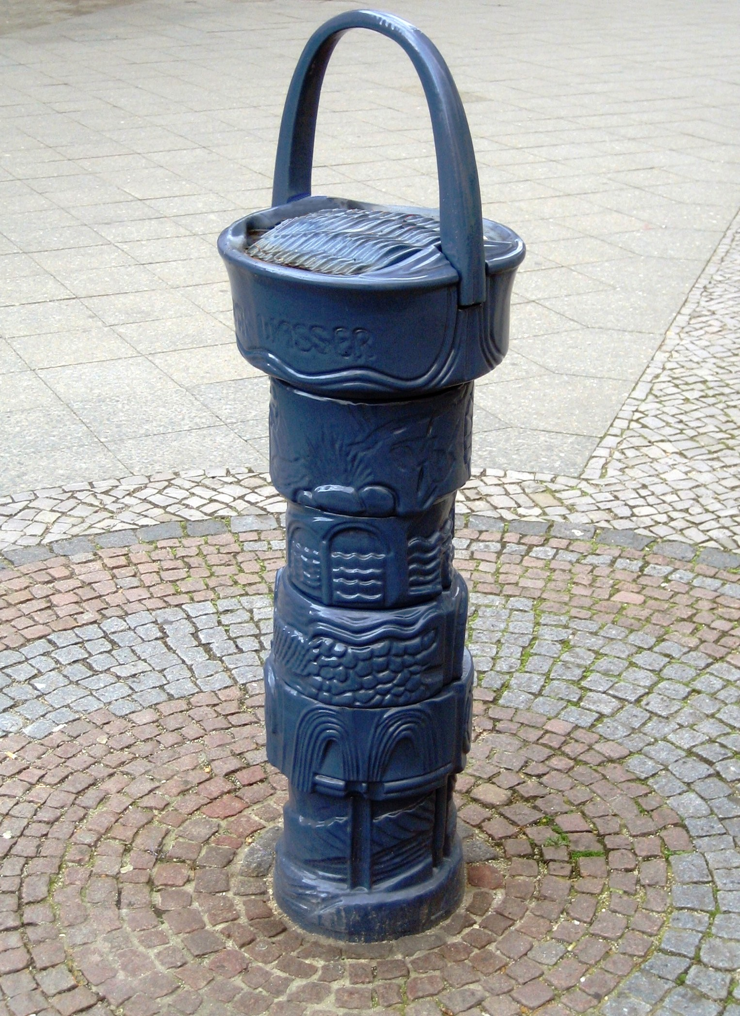 Fountain with drinking-water at Fehrbelliner Platz in Berlin-Wilmersdorf (Germany).